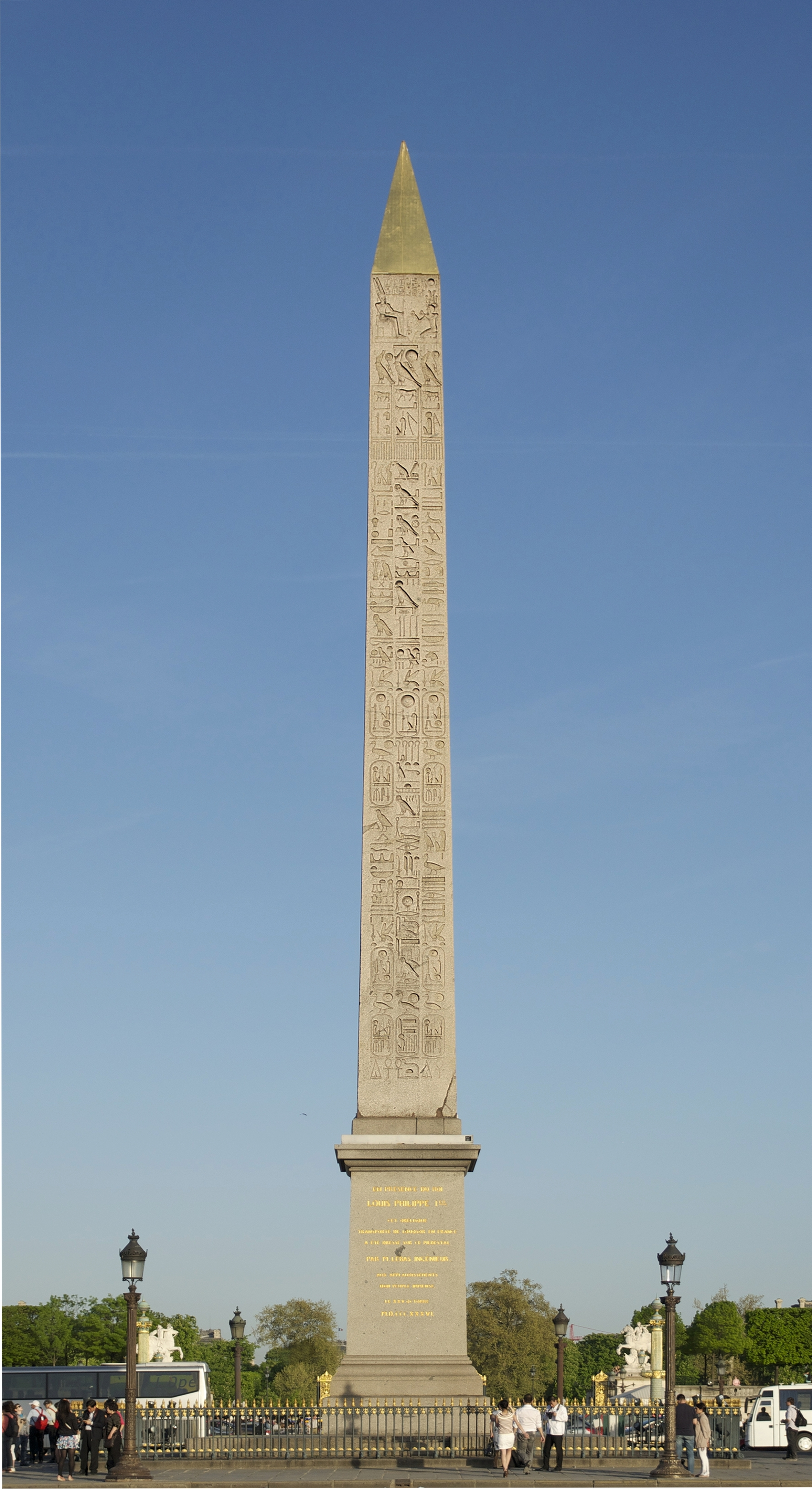 Facing the Champs-Elysées avenue, the Obelisk of Place de la Concorde in Paris